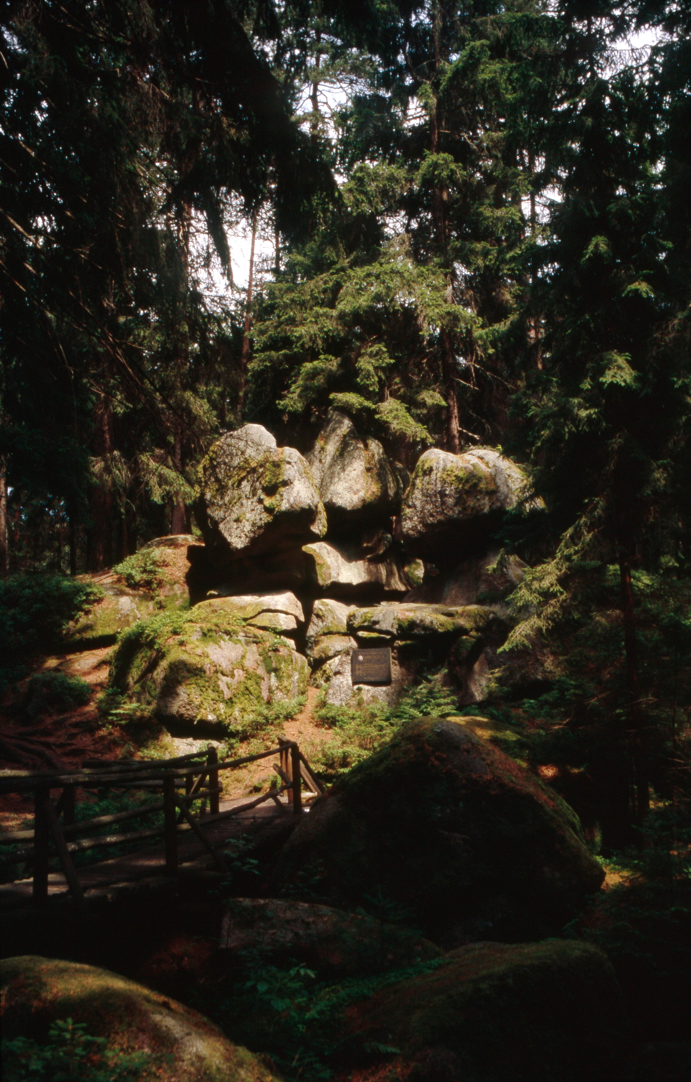 Natural monument GD-074 Felsgruppe Geyer-Steine, near Altmanns, district Gmünd, Lower Austria